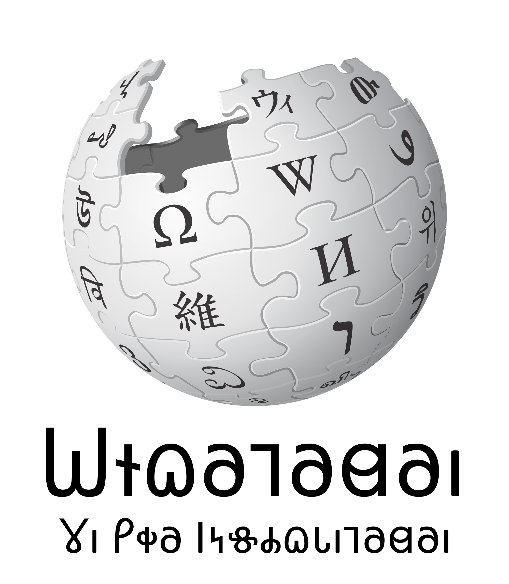 Wikipedia logo with a text saying "Wikipedia, the free encyclopedia" in Deseret alphabet (with dotless "i" representing schwa).